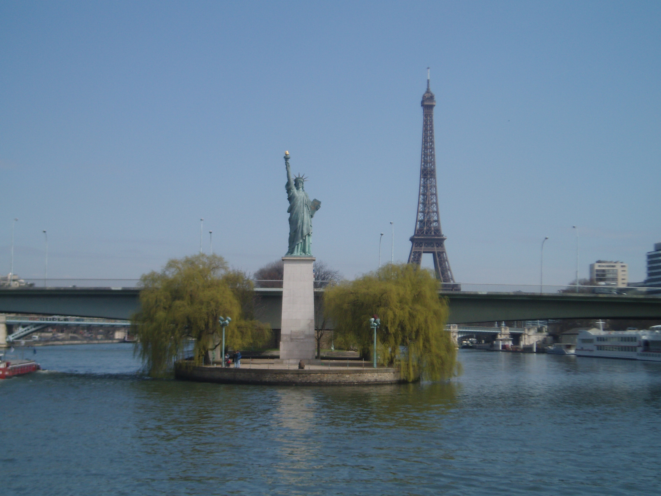 The Eiffel tower and a replica of the statue of Liberty.